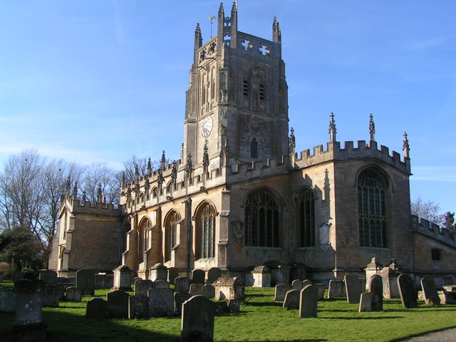 St Mary's Church Native nameChurch of Saint MaryLocationFairford, Gloucestershire, EnglandCoordinates51° 42′ 32.76″ N, 1° 46′ 55.52″ W Establishedcirca 1480Authority control : Q17525521 LCCN: n86104952 Historic England: 1089998 WorldCat institution QS:P195,Q17525521